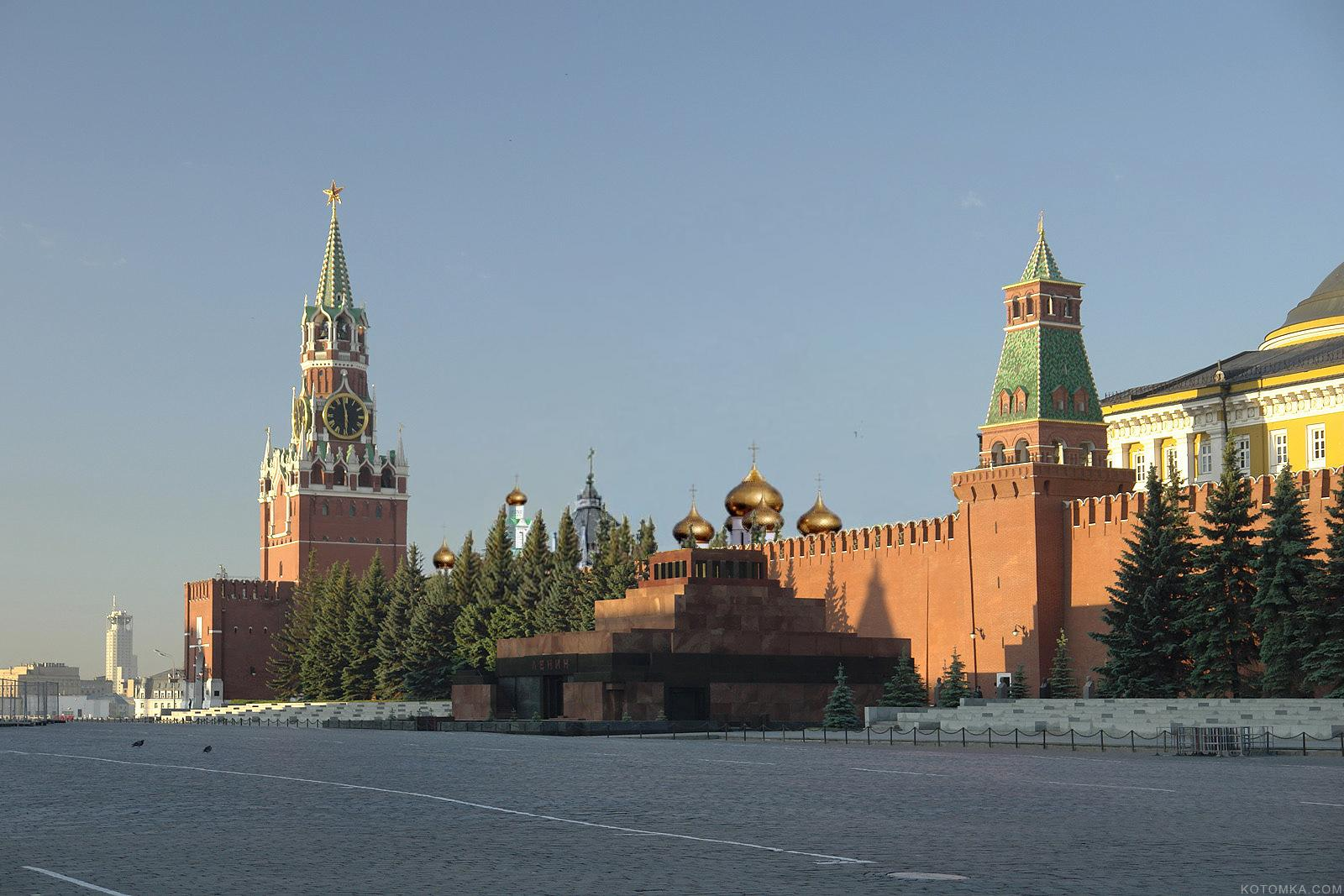 Red Square Future Forecast Photos